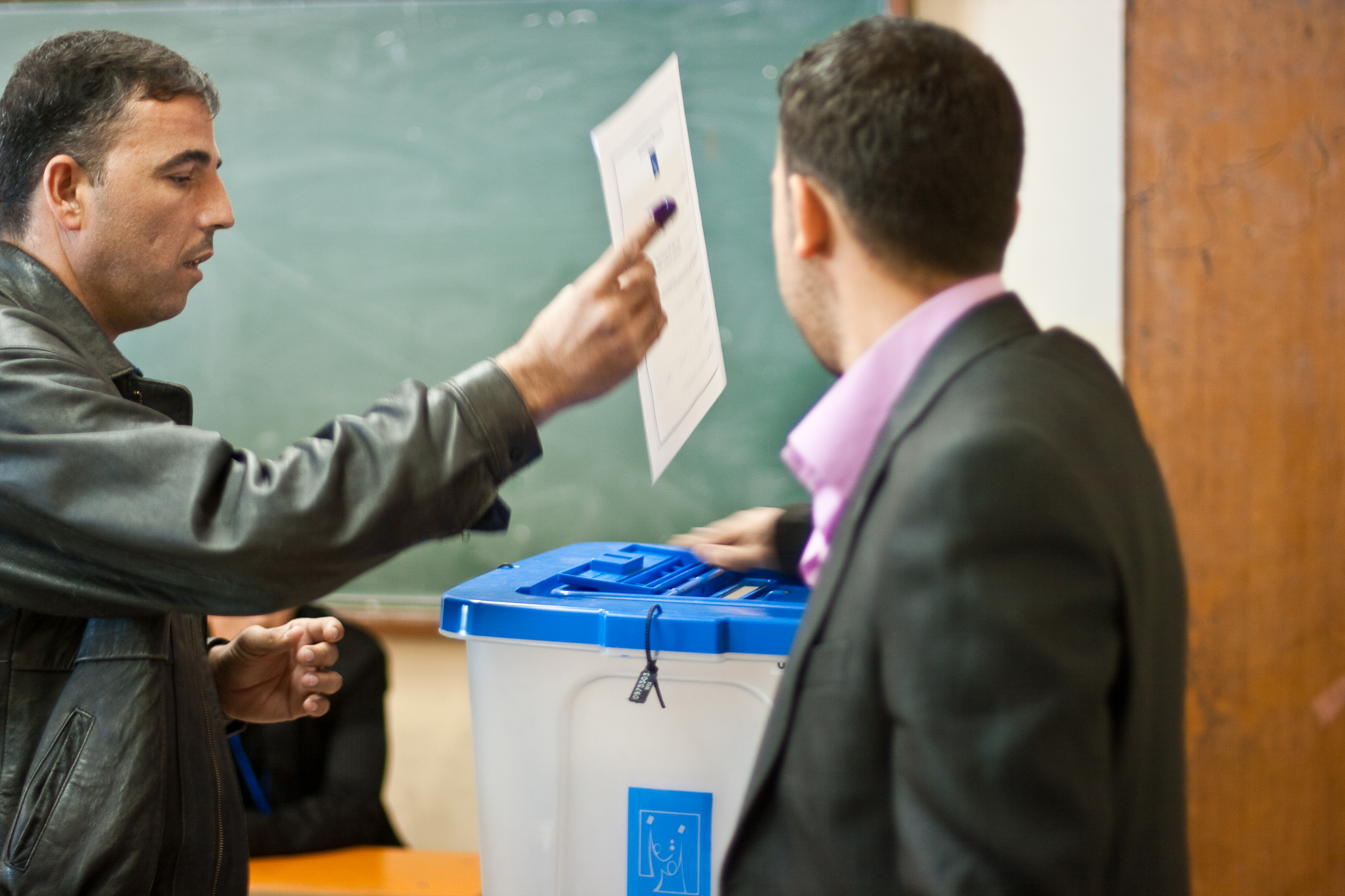 A man during early voting during the Iraqi parliamentary elections in 2010